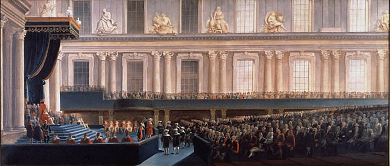 The Diet of Sweden gathered in 1789, listerning to king Gustaf III. By Louis Jean Desprez.